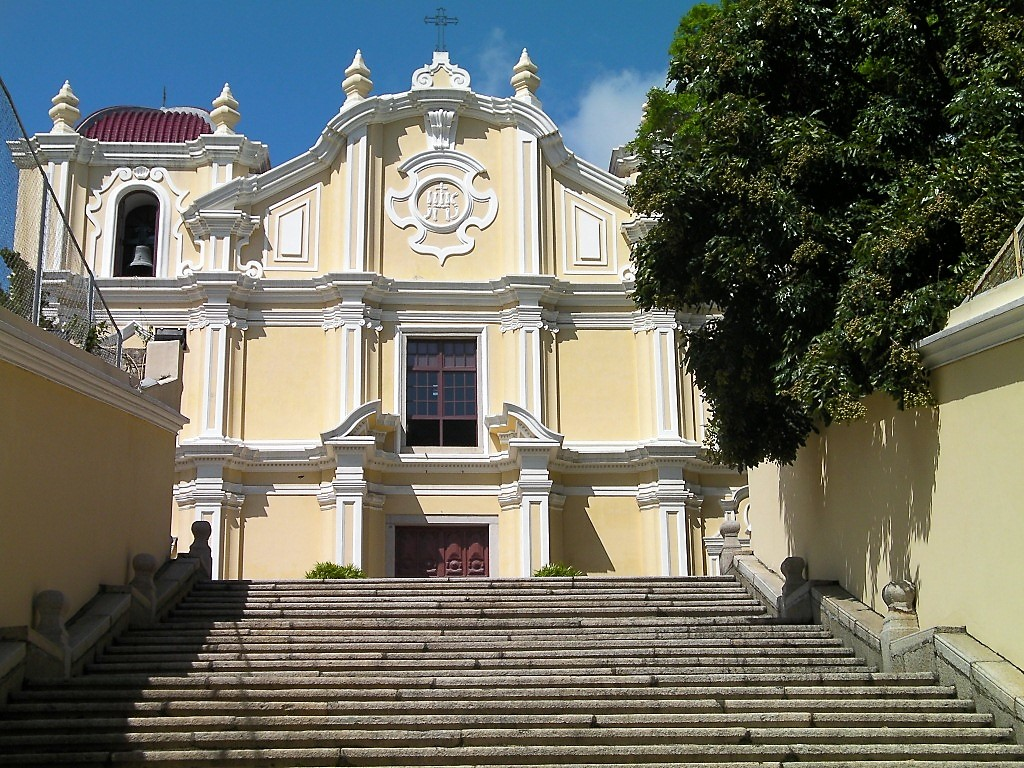 St. Joseph's Church, Macao SANYO DIGITAL CAMERA